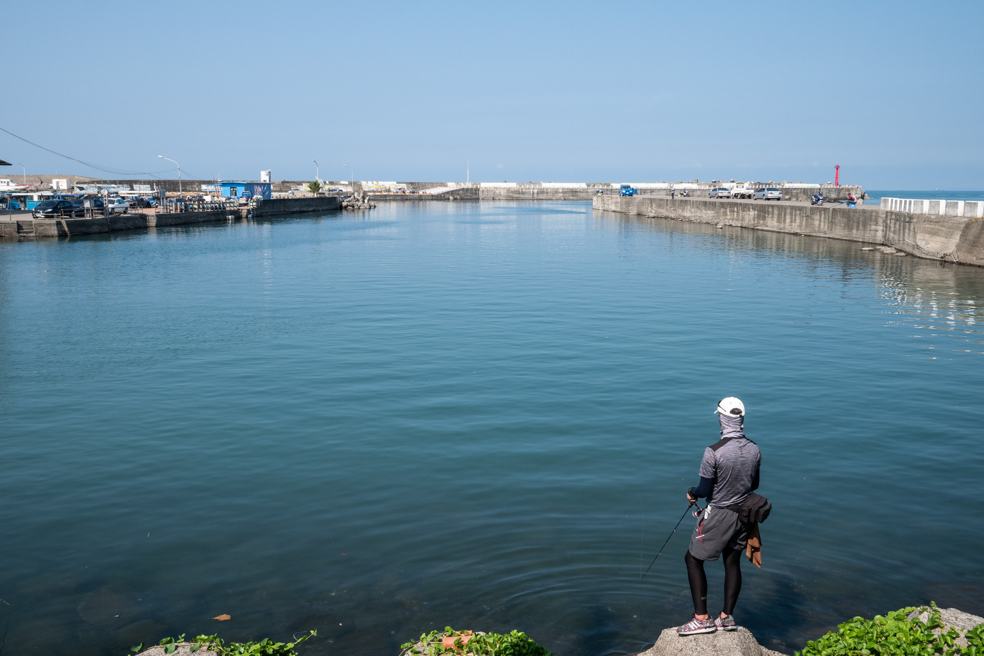 500px provided description: Fangliao Harbor [#Taiwan ,#Harbor ,#Pingtung ,#Fangliao]